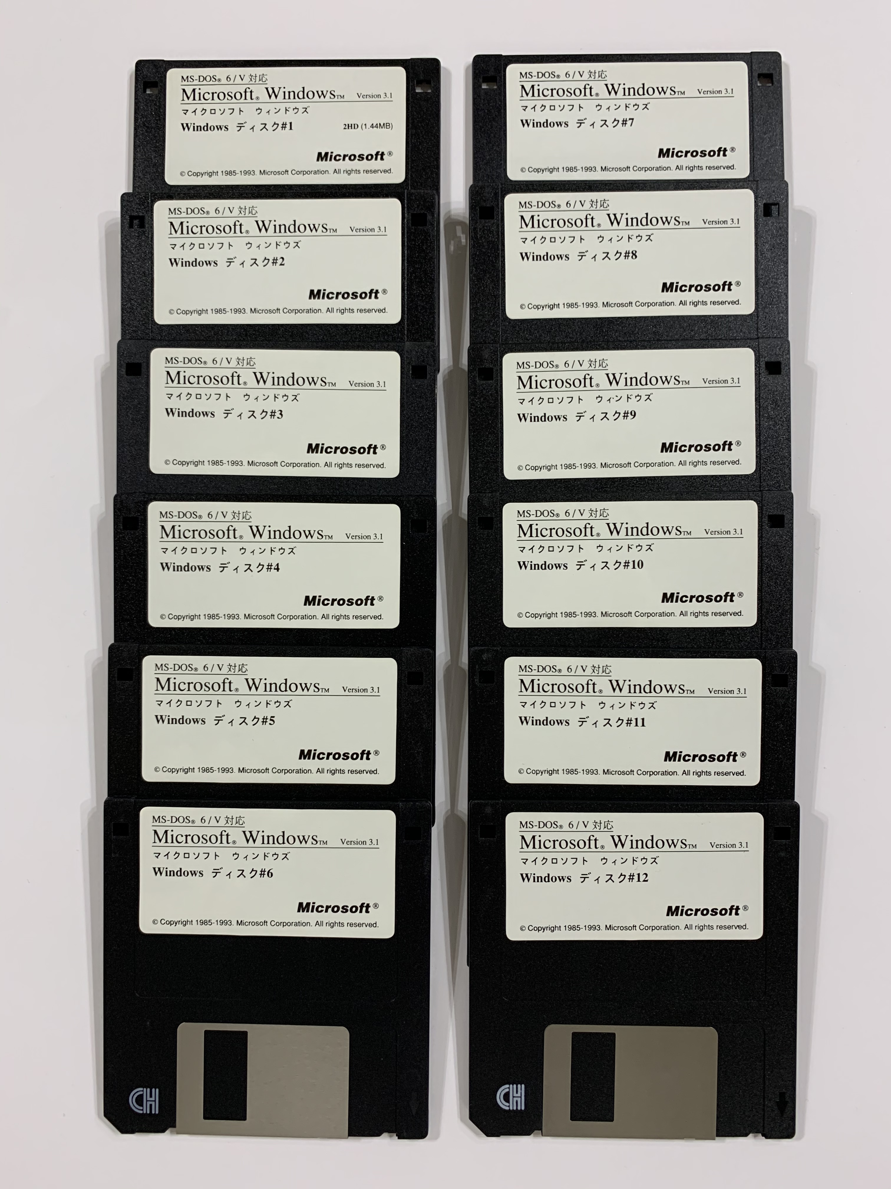 MS-Windows 3.1 floppy disks (JPN)